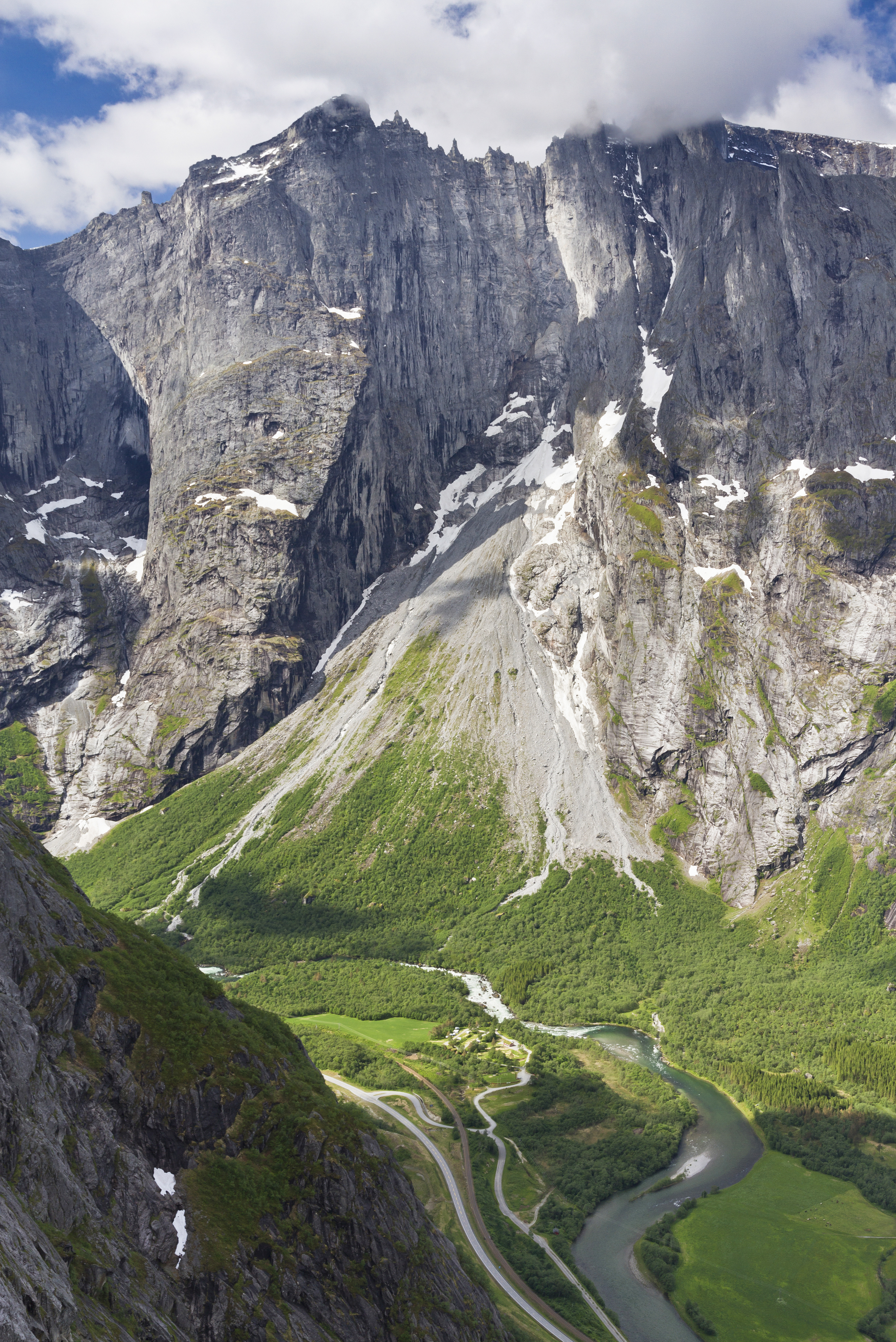 The tallest vertical rock face in Europe, Trollveggen (middle), and Trollryggen (right) as seen from Litlefjellet over Romsdalen valley in 2013 June. The river running through the valley is Rauma.